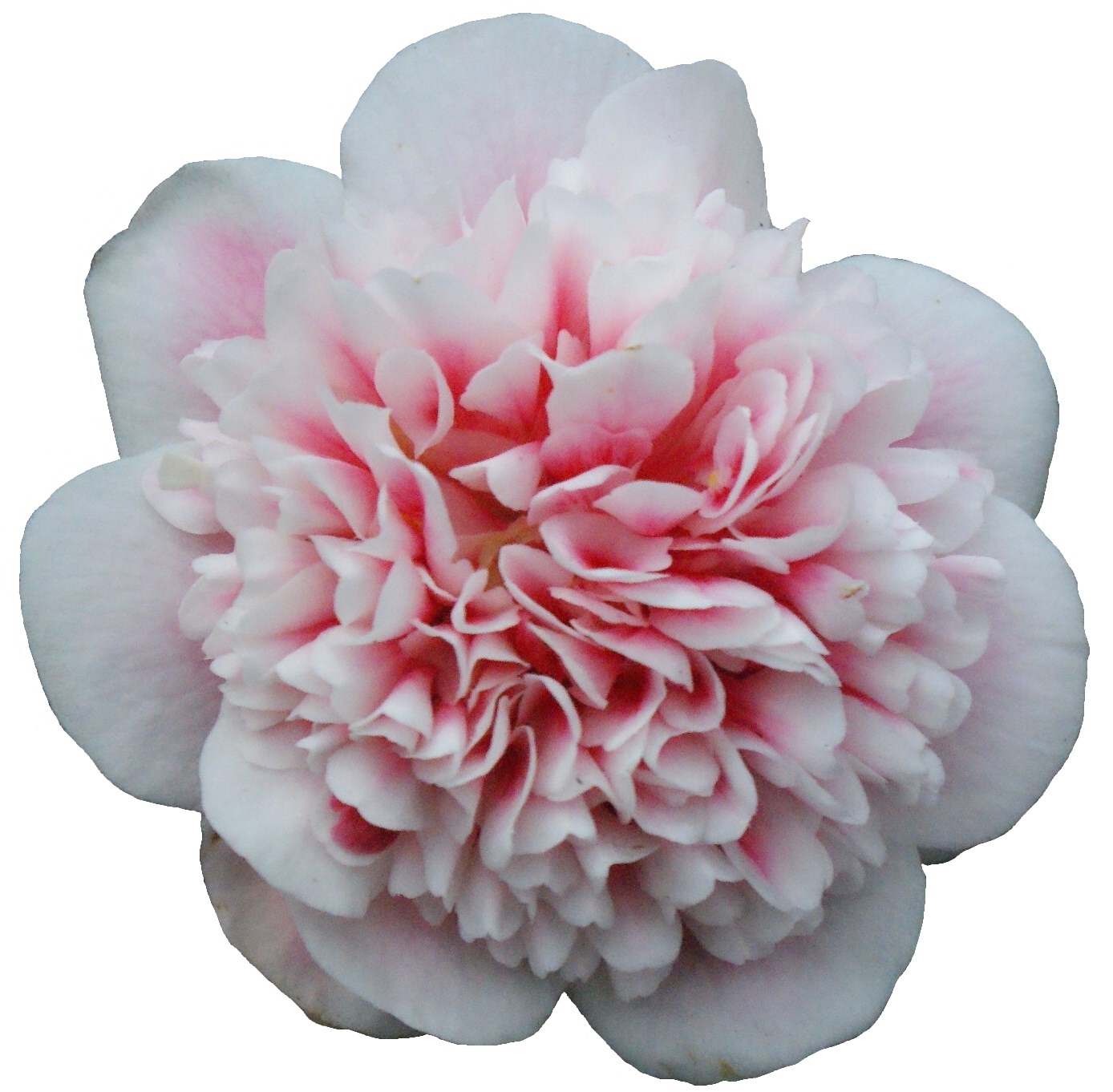 camelia, white background